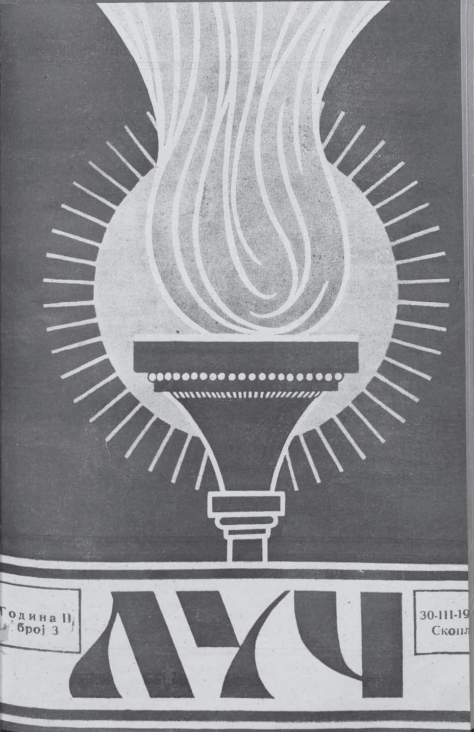 Frontpage